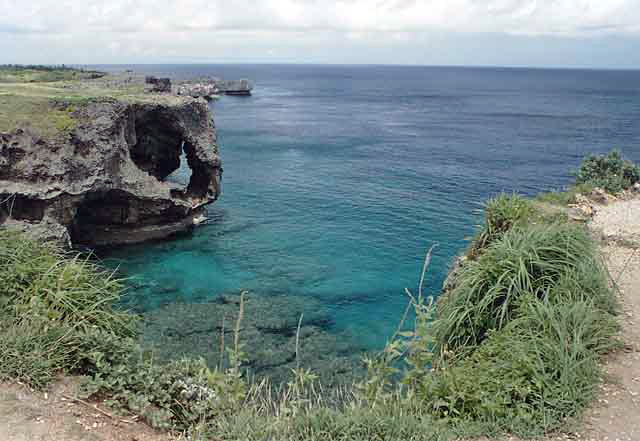 Manzamo Okinawa Japan I took this photo.